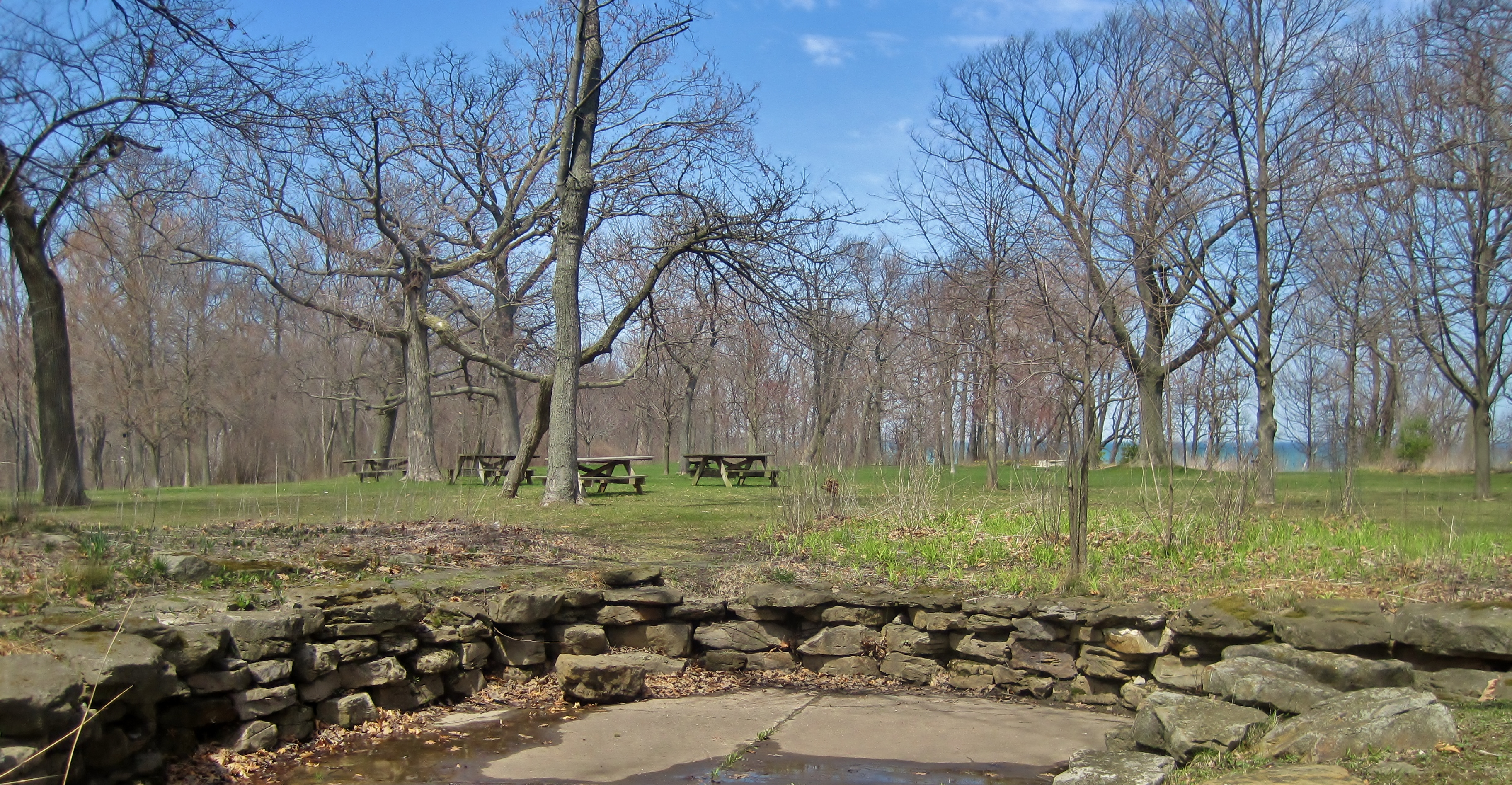 Rosewood Park in Highland Park, IL (1910). It was designed by Jens Jensen, although the stone pool hasn't been filled with water for decades.